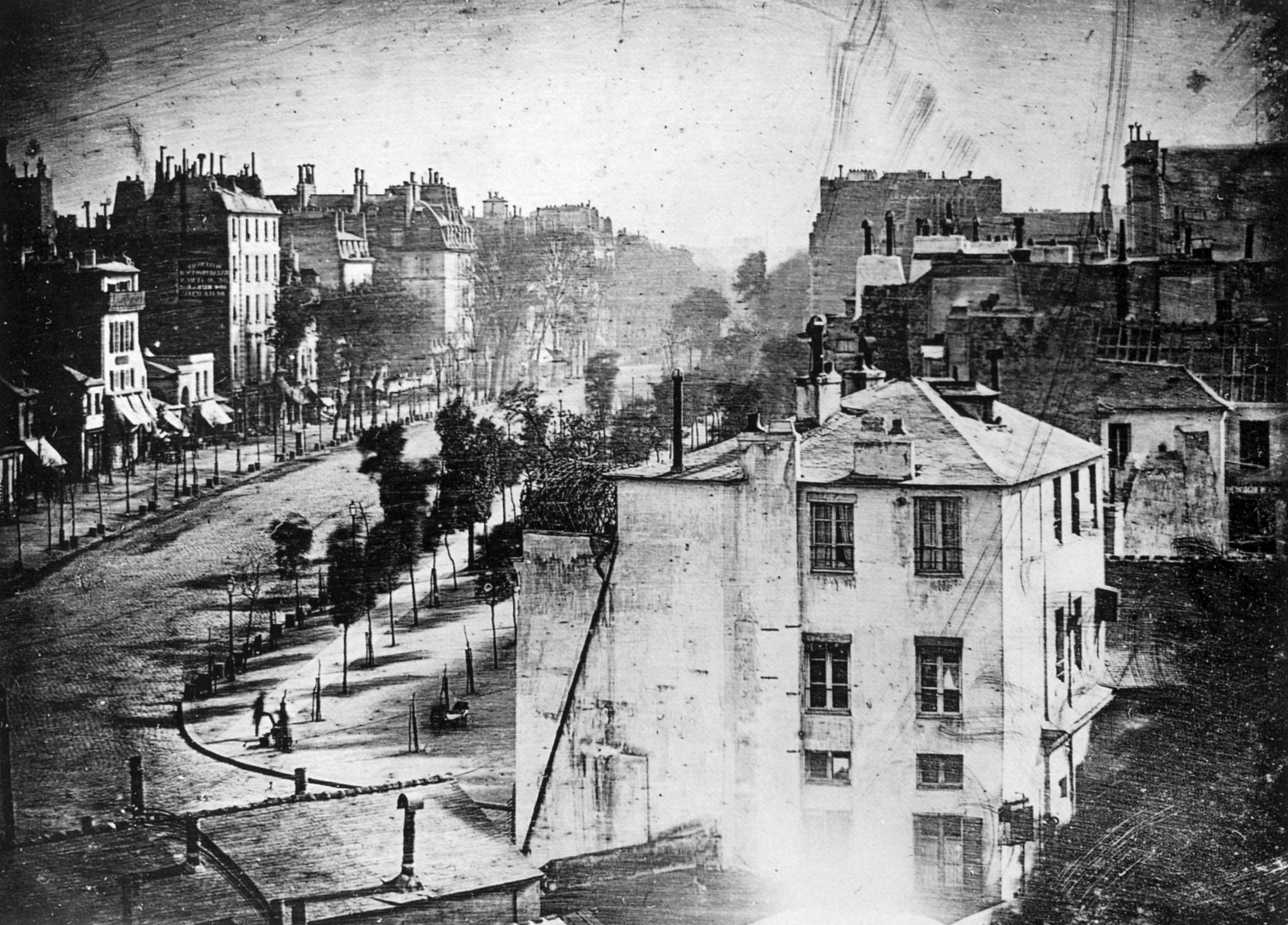 Boulevard du Temple, Paris, 3rd arrondissement, Daguerreotype. Made in 1838 by inventor Louis Daguerre, this is believed to be the earliest photograph showing a living person. It is a view of a busy street, but because the exposure lasted for several minutes the moving traffic left no trace. Only the two men near the bottom left corner, one apparently having his boots polished by the other, stayed in one place long enough to be visible. As with most daguerreotypes, the image is a mirror image.